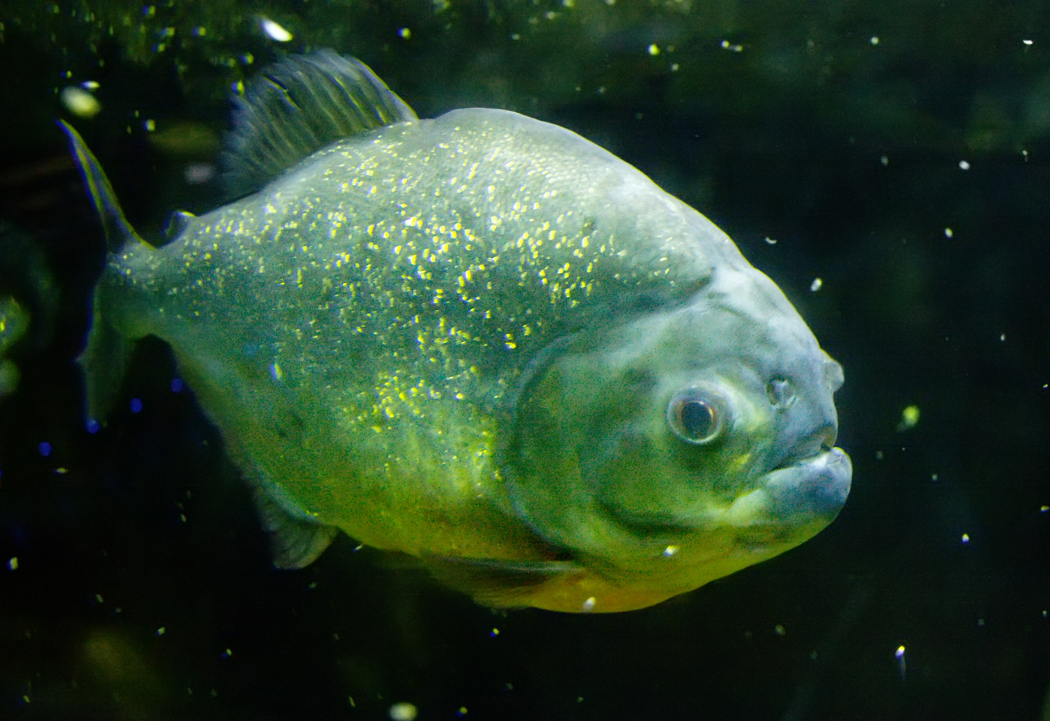 A piranha at the Memphis zoo.